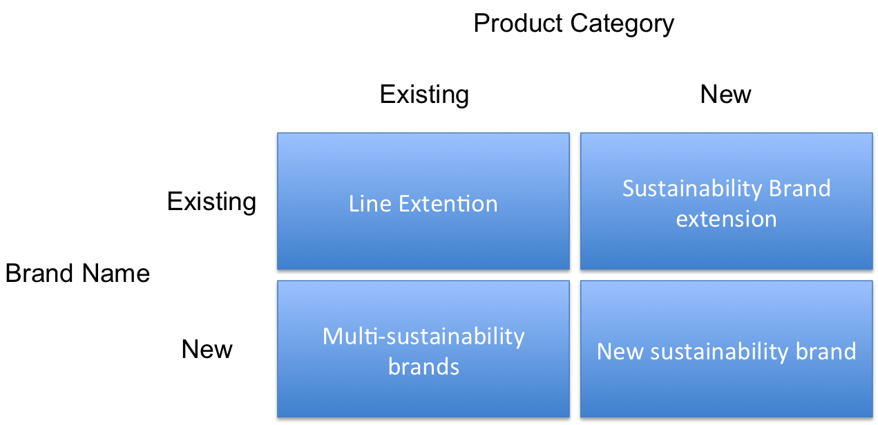 Sustainability brand development strategies